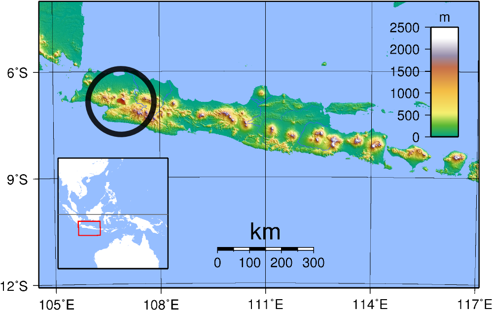 range of Kadarsanomys sodyi (Sody's Tree Rat))